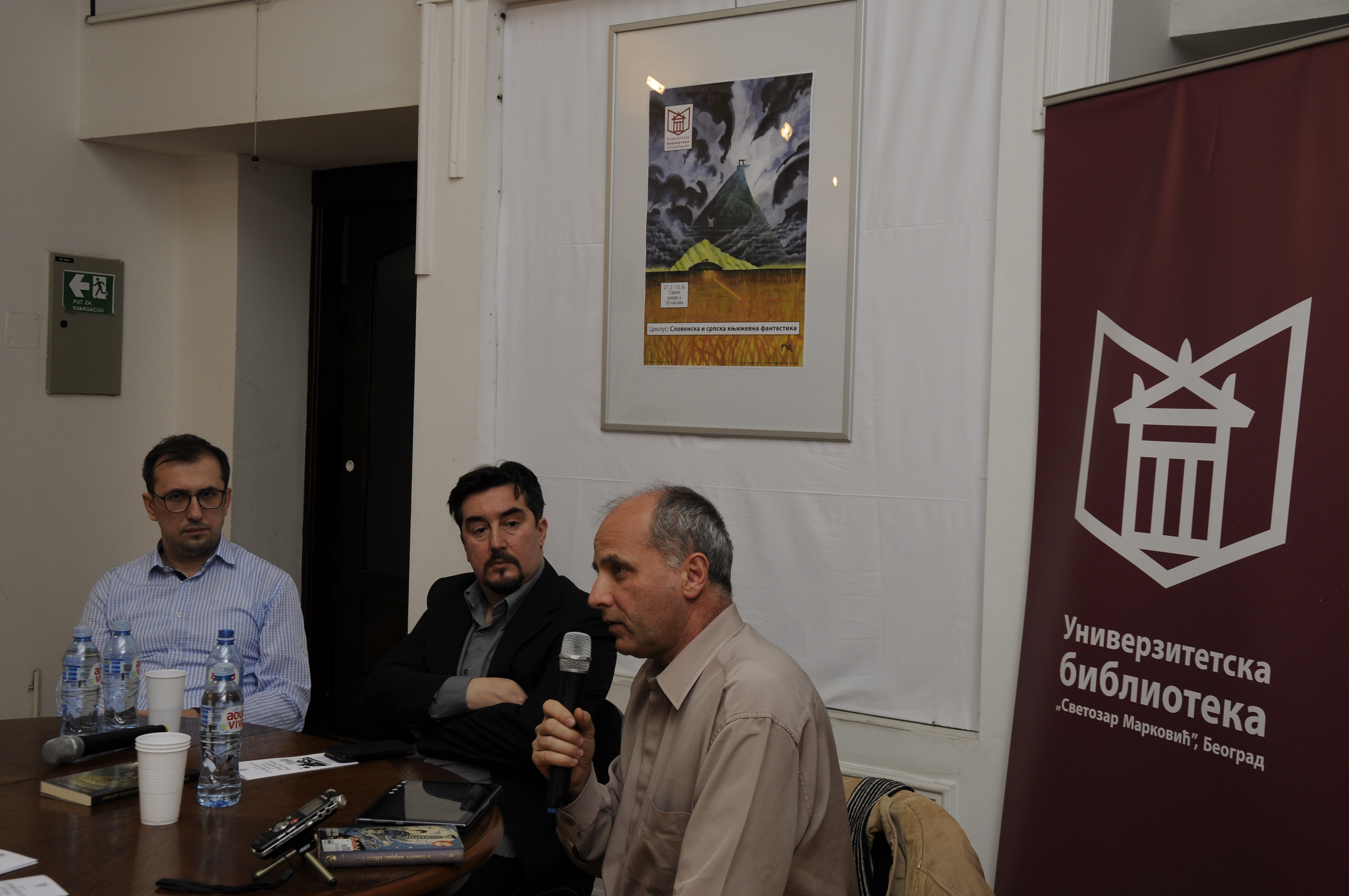 Serbian fantasy cycle, University library, Belgrade, Serbia, Adrijan Sarajlija, Zoran Stefanović i Dejan Ajdačić. Srpski (latinica): Ciklus "Slovenska i srpska fantastika", Univerzitetska biblioteka, Beograd, Adrijan Sarajlija, Zoran Stefanović i Dejan Ajdačić.